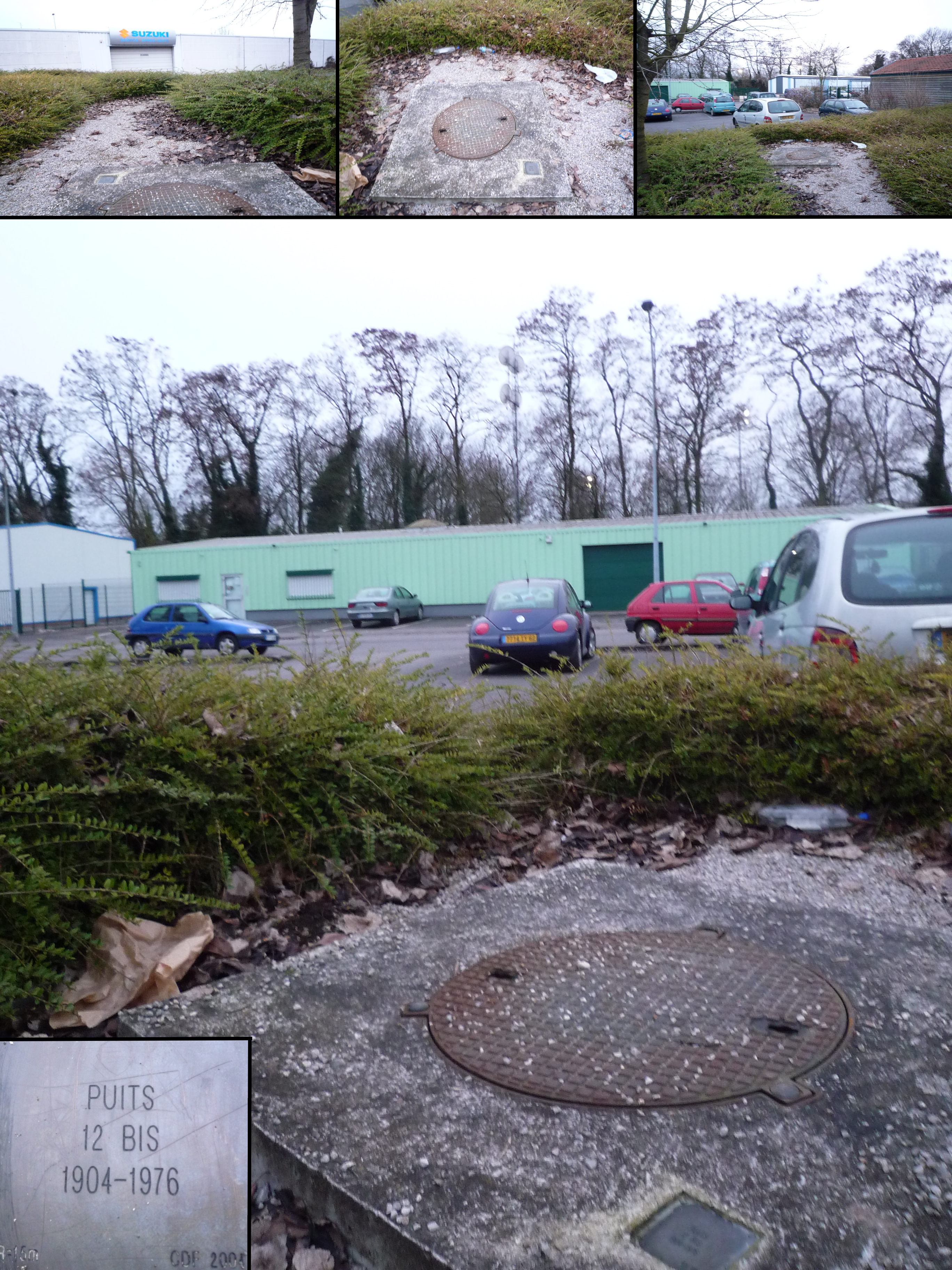 Pit n° 12 bis, Compagnie des mines de Lens, Lens, Pas-de-Calais, Nord-Pas-de-Calais, France.